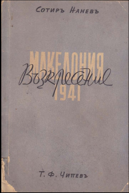 Resurrection - Macedonia 1941